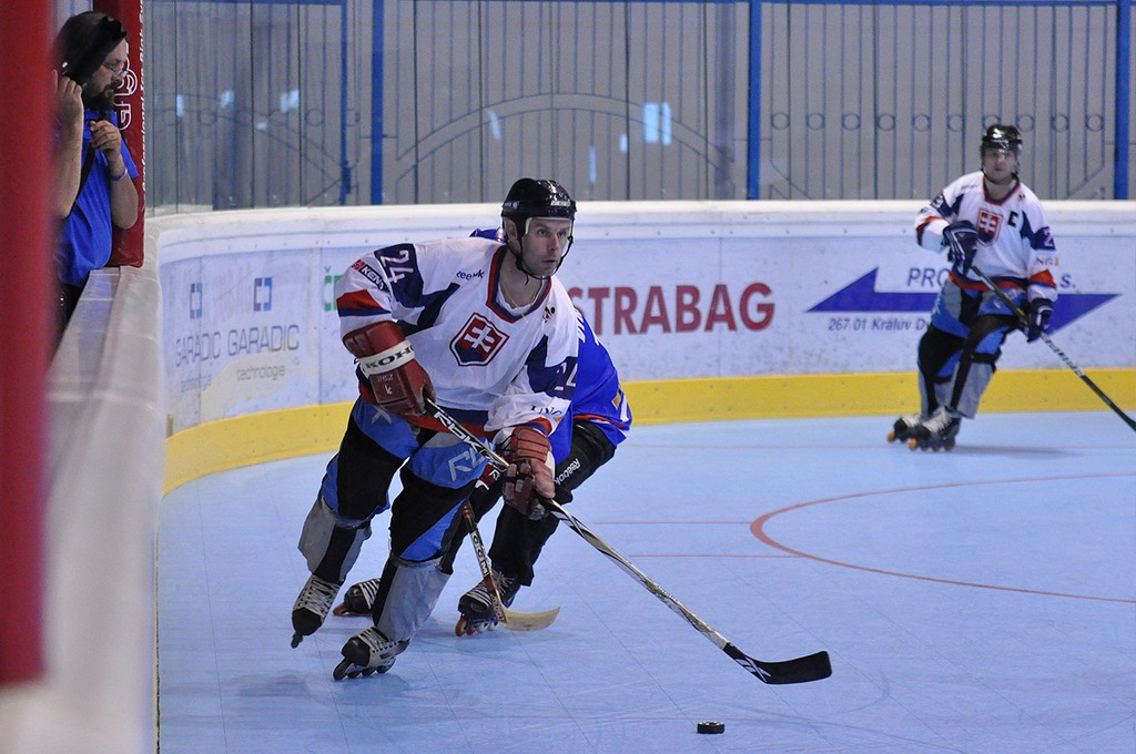 Slovakia and Czech Republic teams on IIHF Inline hockey World Championship